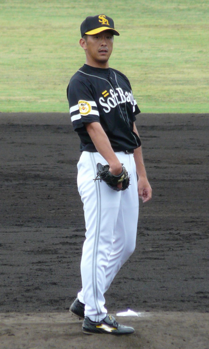 Koji Mise, pitcher of the Fukuoka SoftBank Hawks, at Hanshin Naruohama Baseball Ground.